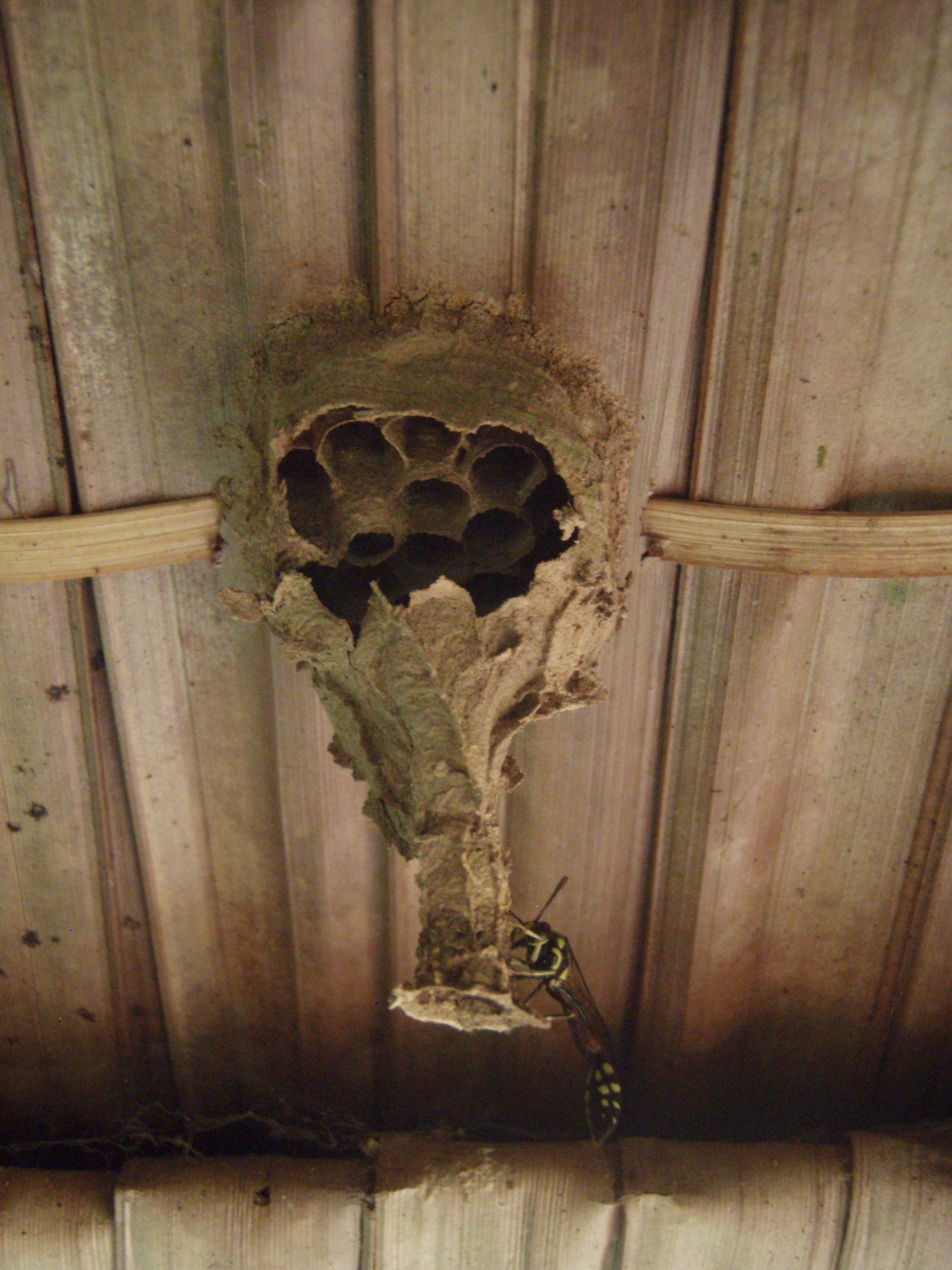 There are visible opened cells. NP Khao Sok, Thailand